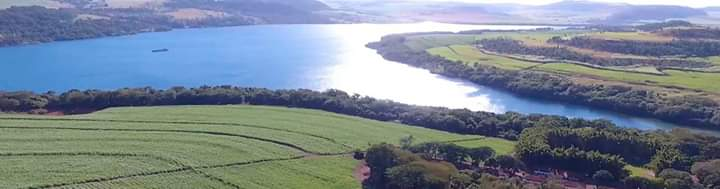 Igarapava - Vista do Rio Grande